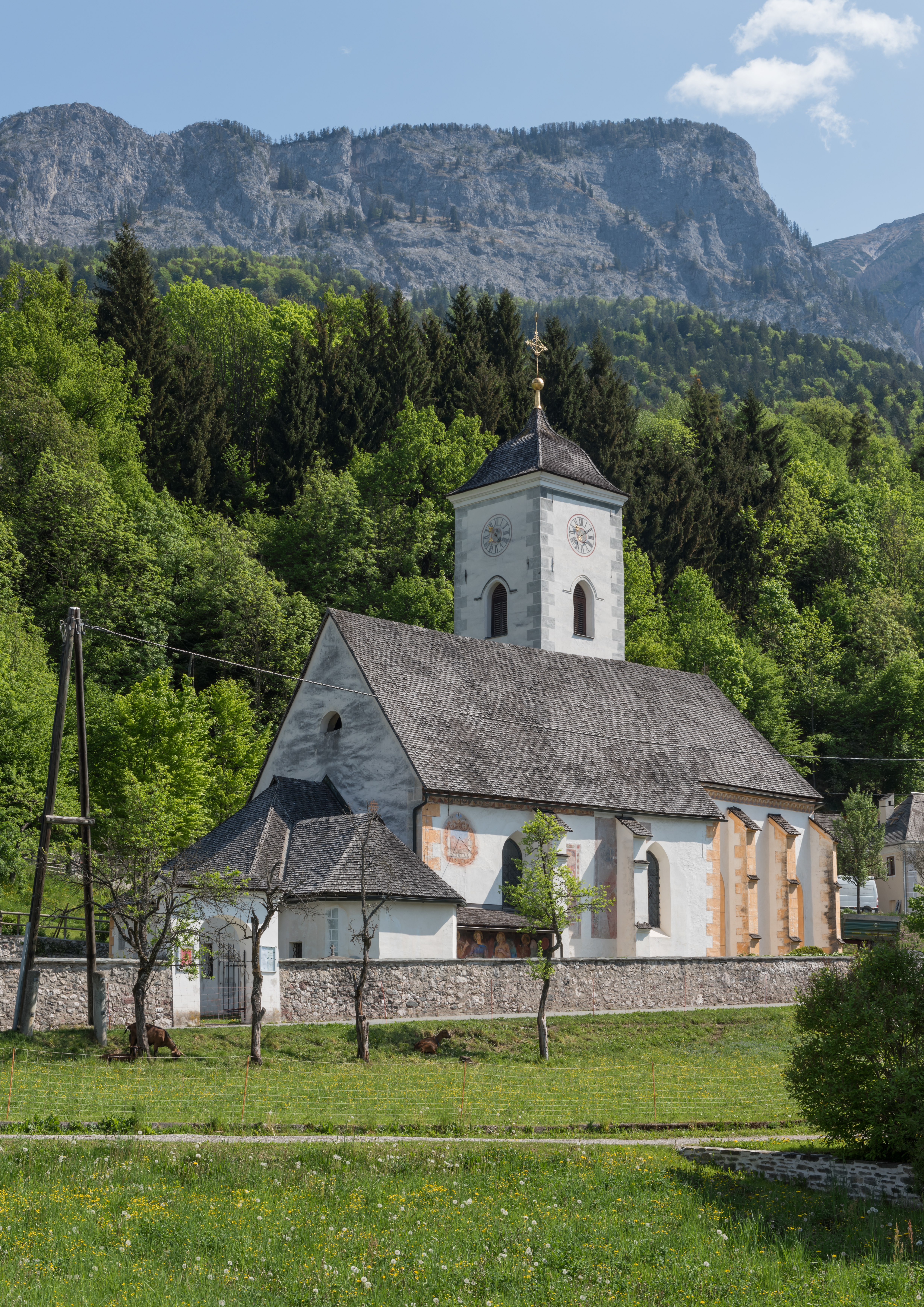 Roman Catholic parish church Saint Kanzian in Saak, market town Nötsch, district Villach Land, Carinthia, Austria, European Union